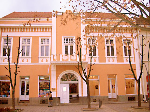 Cultural center in Šabac